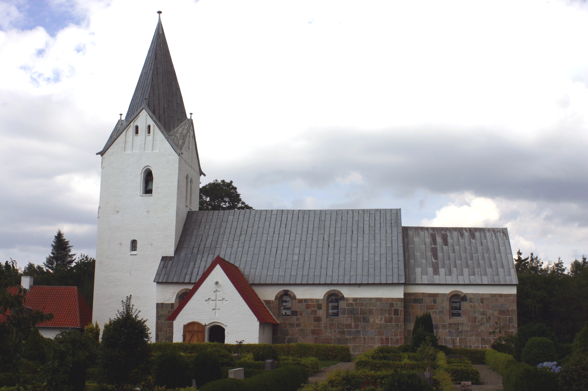 Husby, Denmark, Church